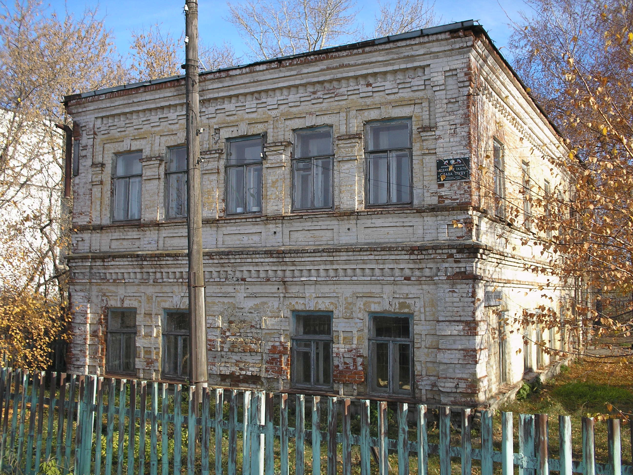 Ekaterinovka. Editorial office of newspaper "Svoy trud".jpg